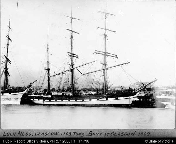 Creator: Victorian Railways Corporation (VA 2876). Black and white photograph of Loch Ness at Glasgow in 1869. Publisher: Public Records Office Victoria. Item held by the Public Records Office Victoria. Item number: VPRS 12800/P1. Format: negative glass; 12.0 x 16.5 cm (half plate).